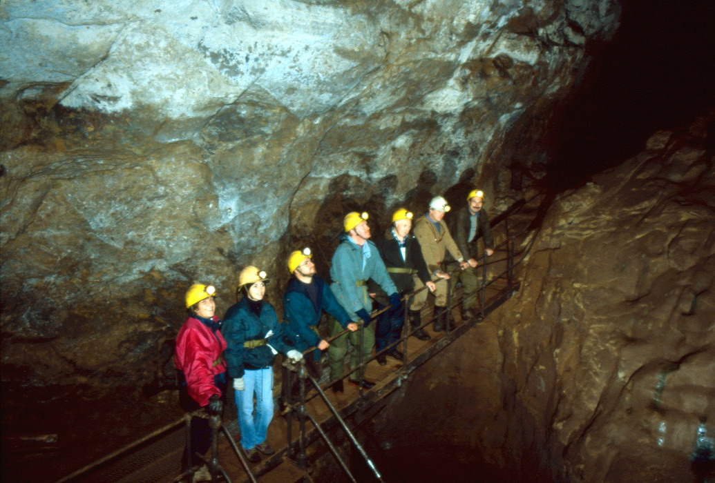 Photograph taken by Nigel Dibben.